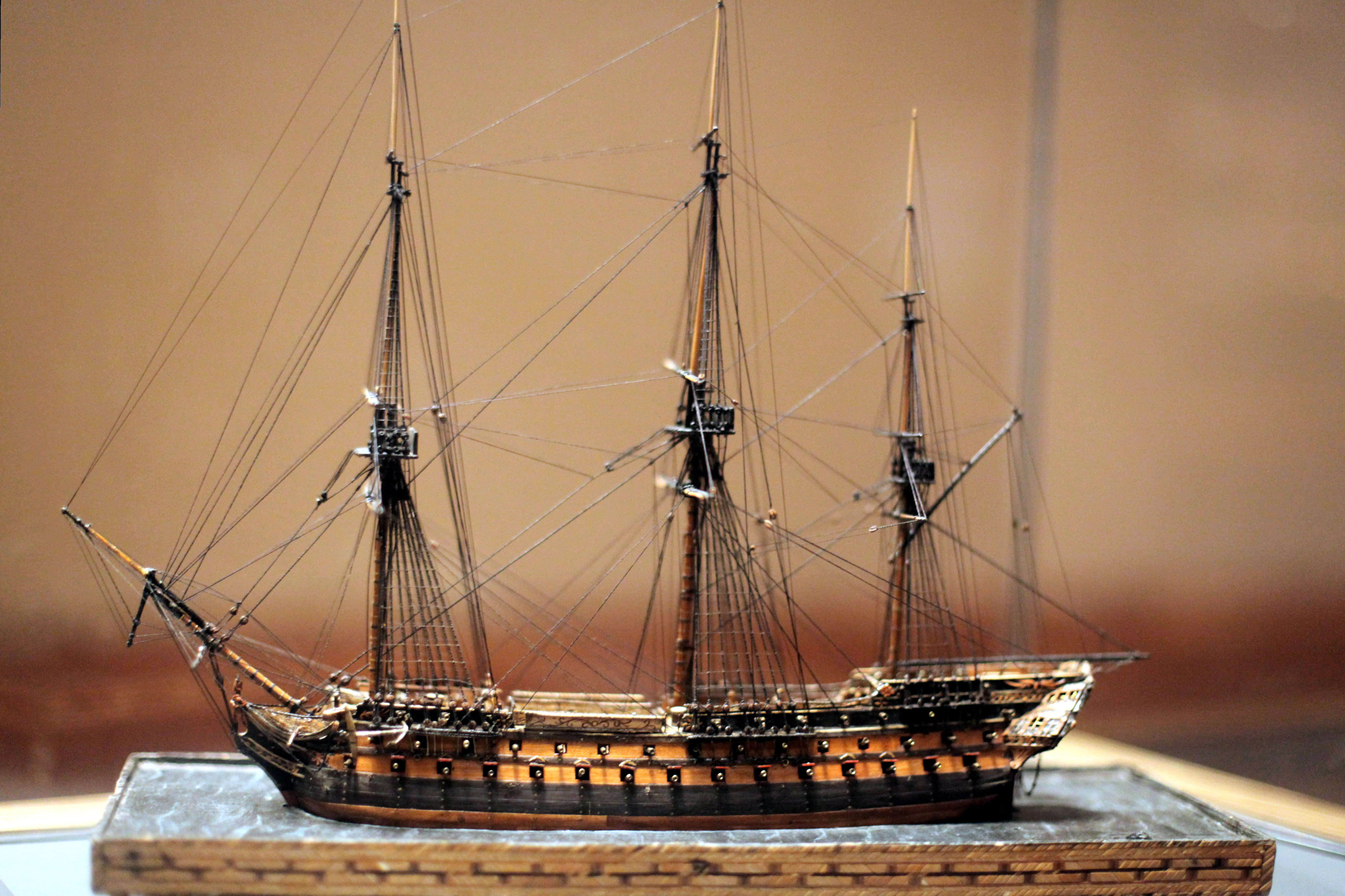 Model of the 74-gun ship Brave, with Admiral's Barge alongship